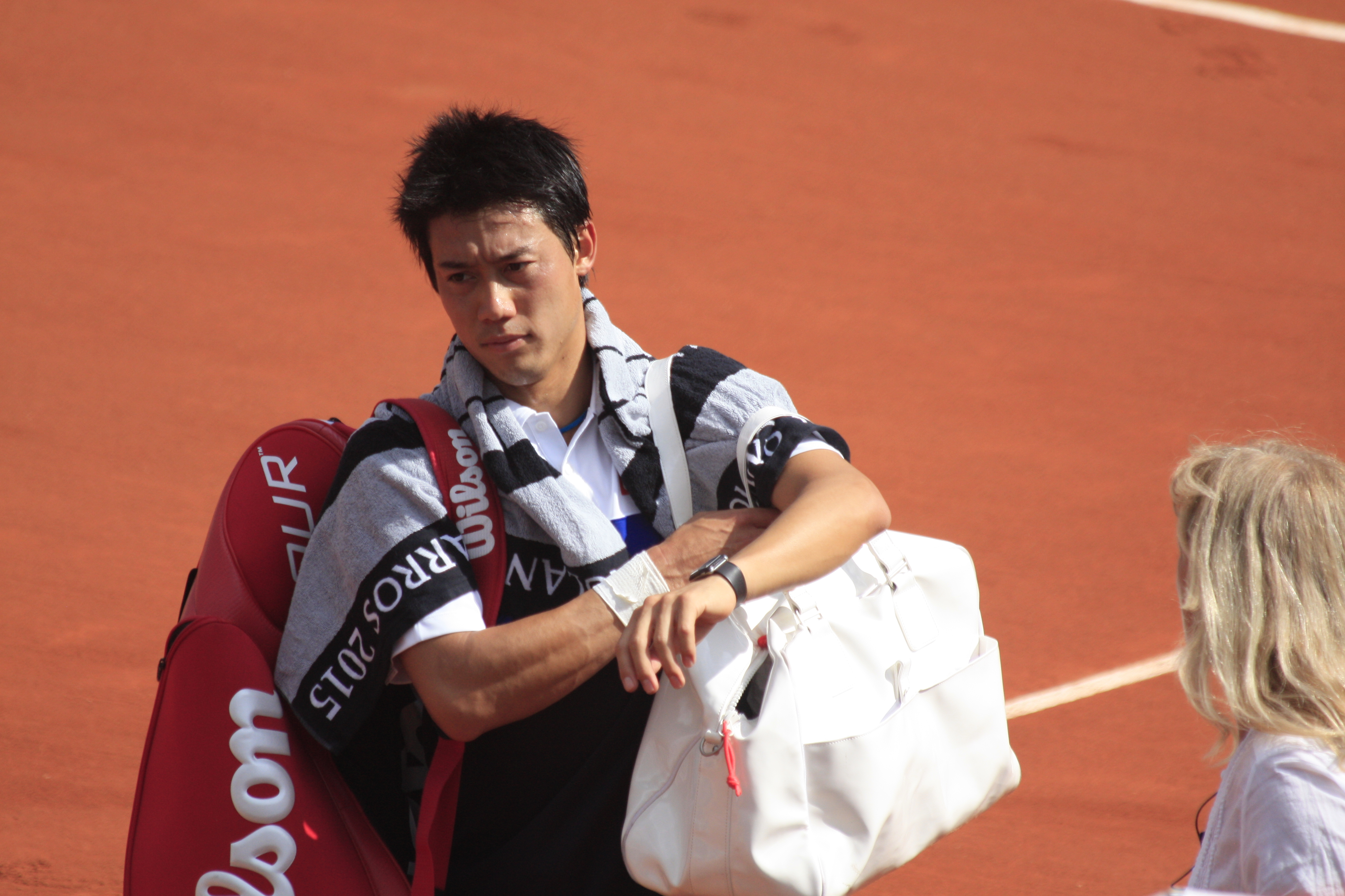 Kei Nishikori in the first round of the 2015 French Open, after his victory against Paul-Henri Mathieu.